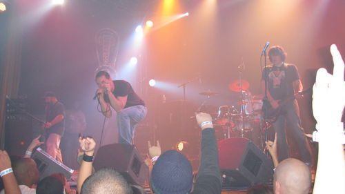 Element Eighty Live at The Granada in Dallas, Texas